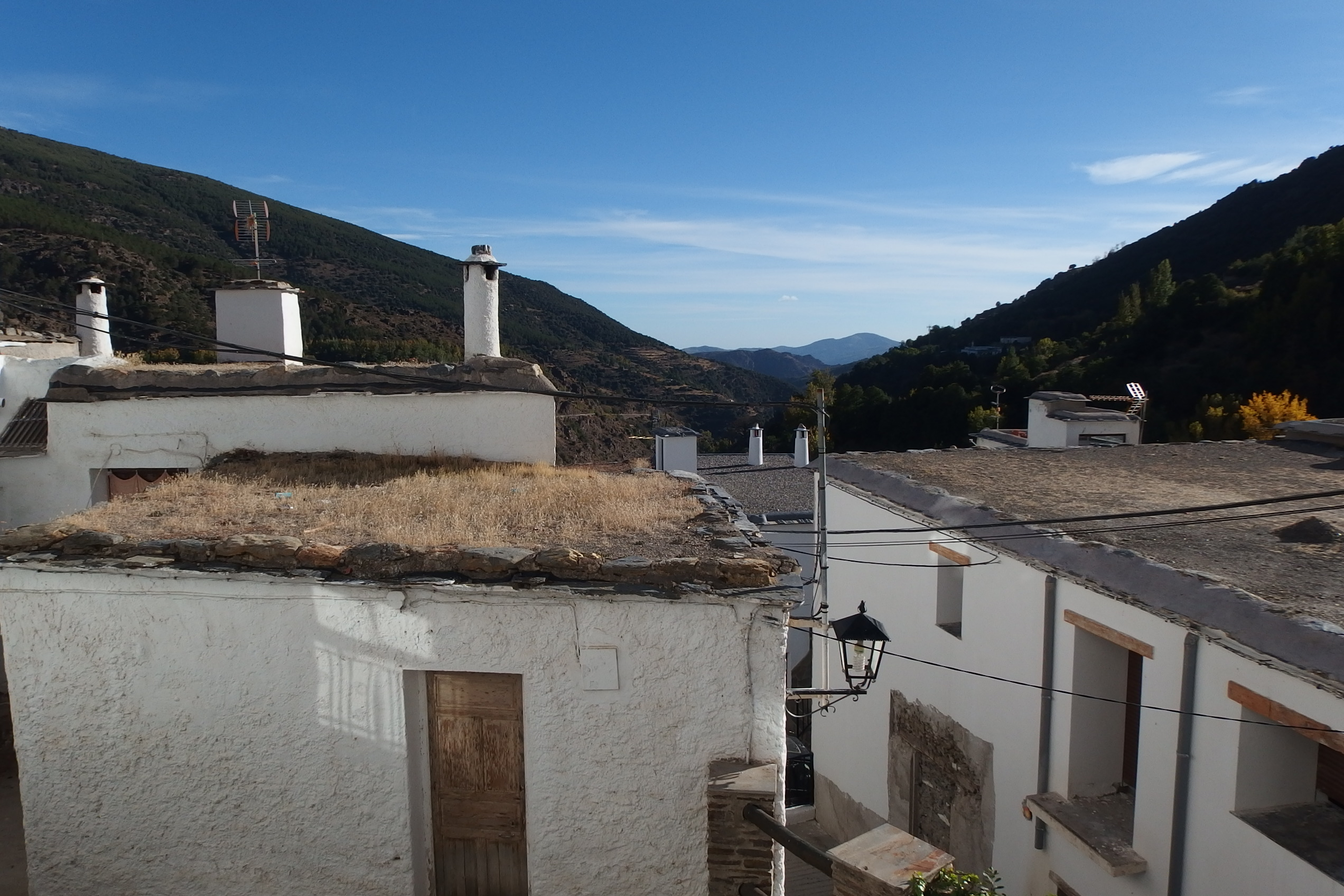 Trevelez in Sierra Nevada mountains, Spain